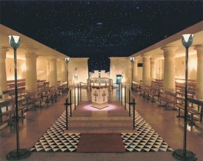 Picture of AMORC's lodge in Paris, France